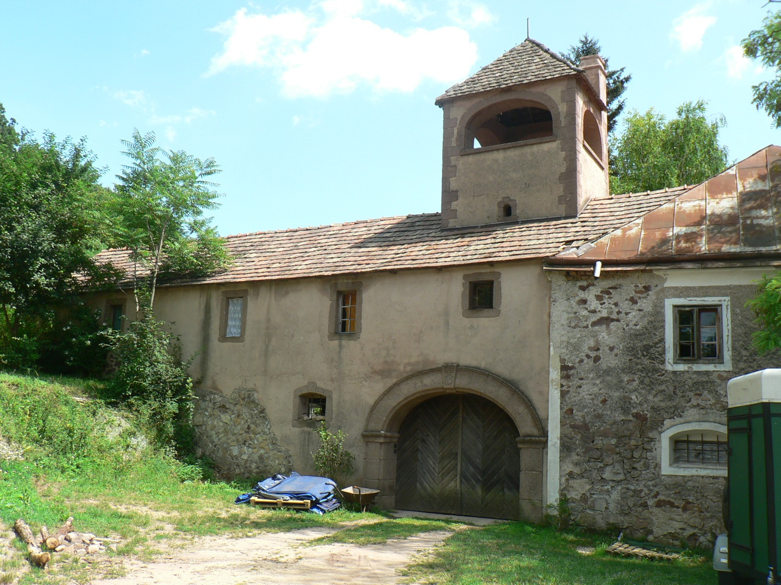 Régi malom Lovas határában